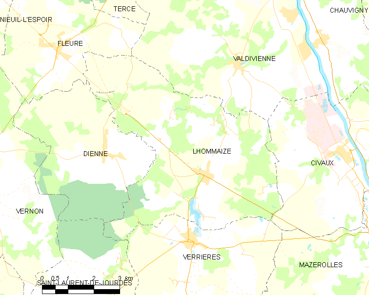 Map of French municipality Lhommaizé